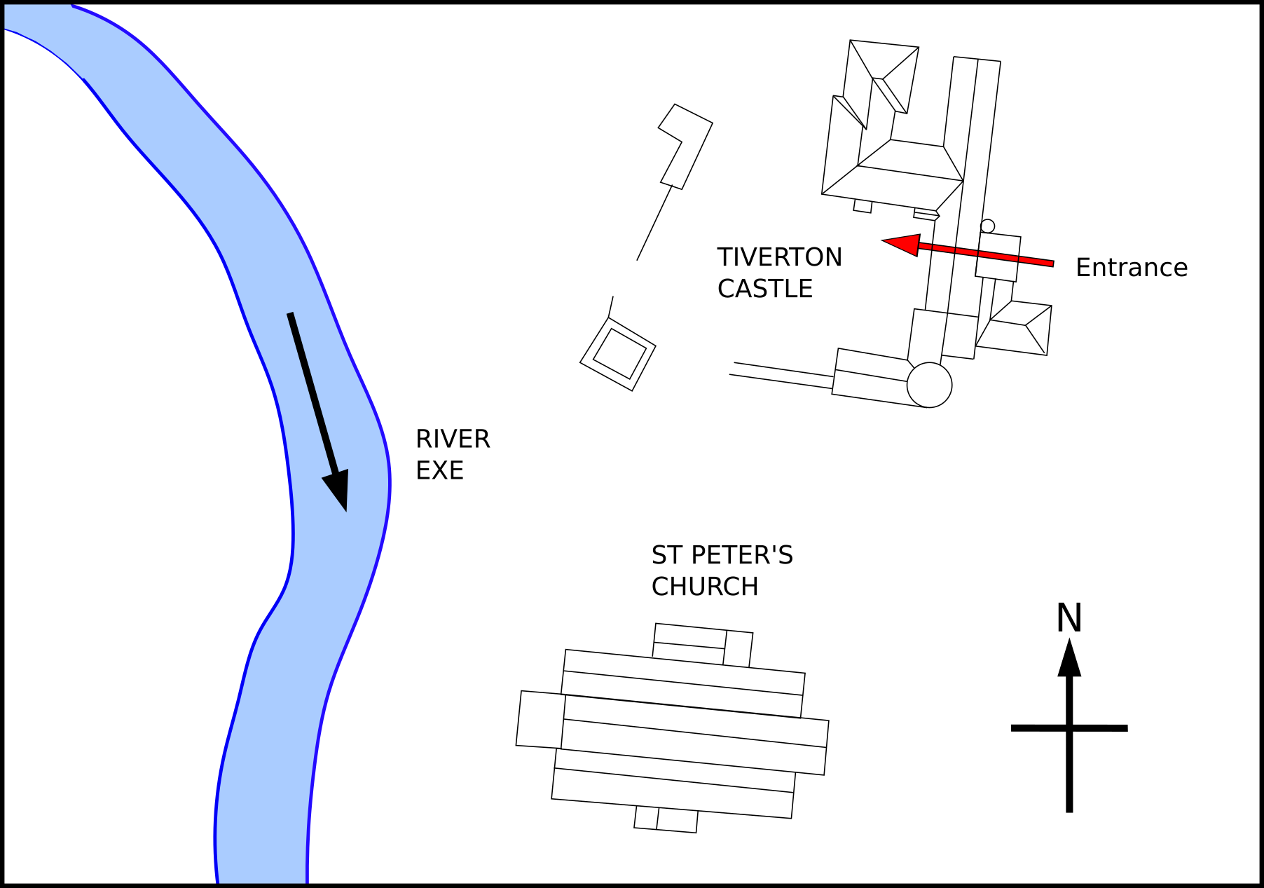 Ground plan of Tiverton Castle, Devon, and setting